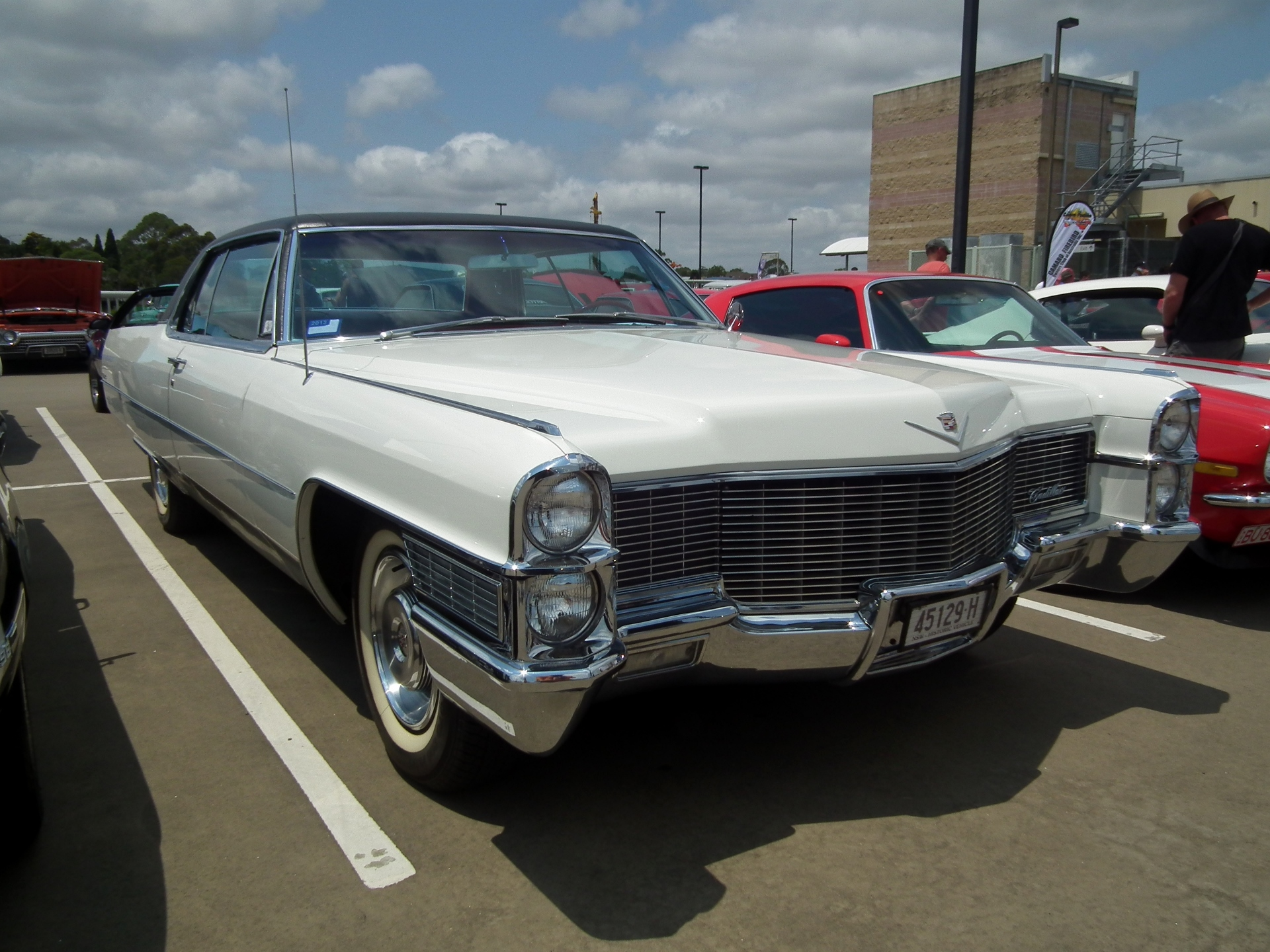 1965 Cadillac Coupe de Ville coupe. Taken at the 2014 New South Wales All American Day, held at Castle Towers Shopping Centre, Castle Hill, Sydney.